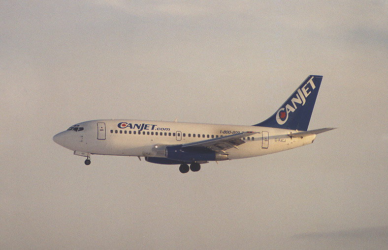 CanJet Boeing 737 (C-FJCJ) arriving in Toronto